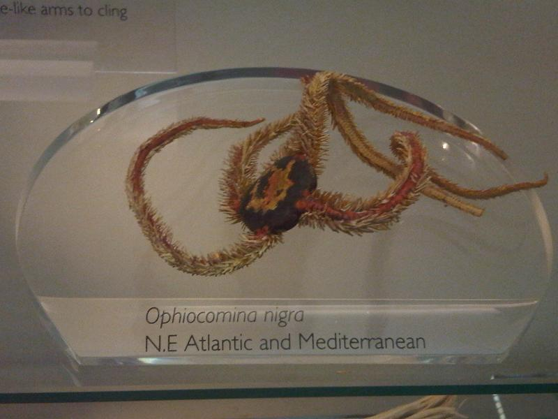 Ophiocomina nigra at the Natural History Museum in London, England.